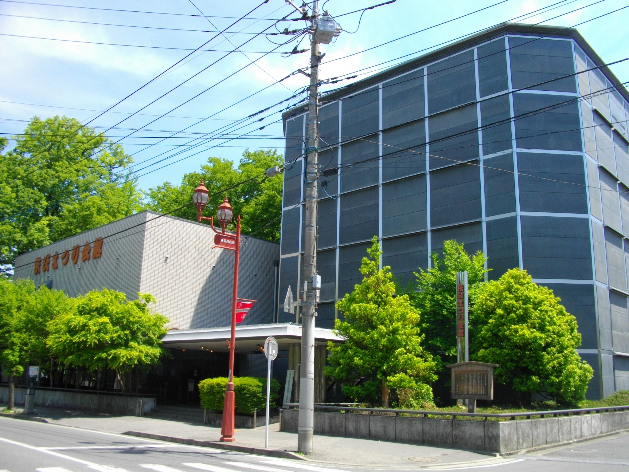 Chichibu Matsuri Kaikan (Chichibu Festival Museum)